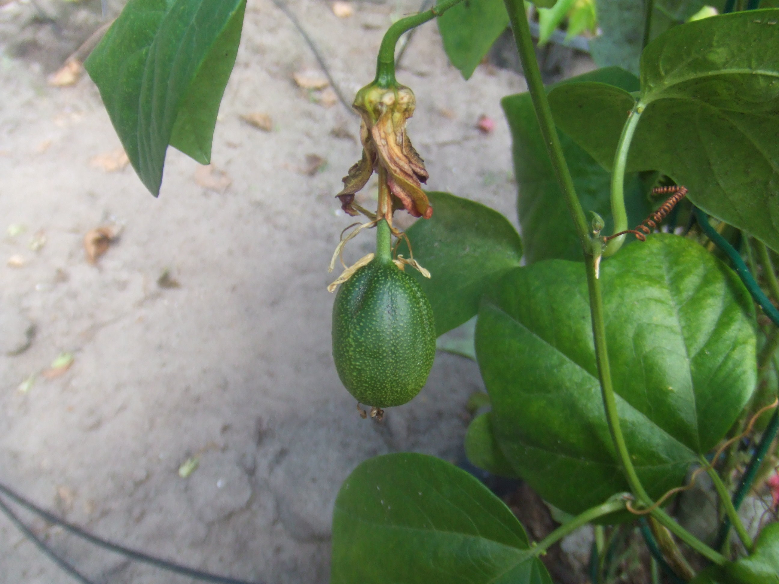 Passiflora herbertiana, picture taken at the Passiflorahoeve in Harskamp, The Netherlands